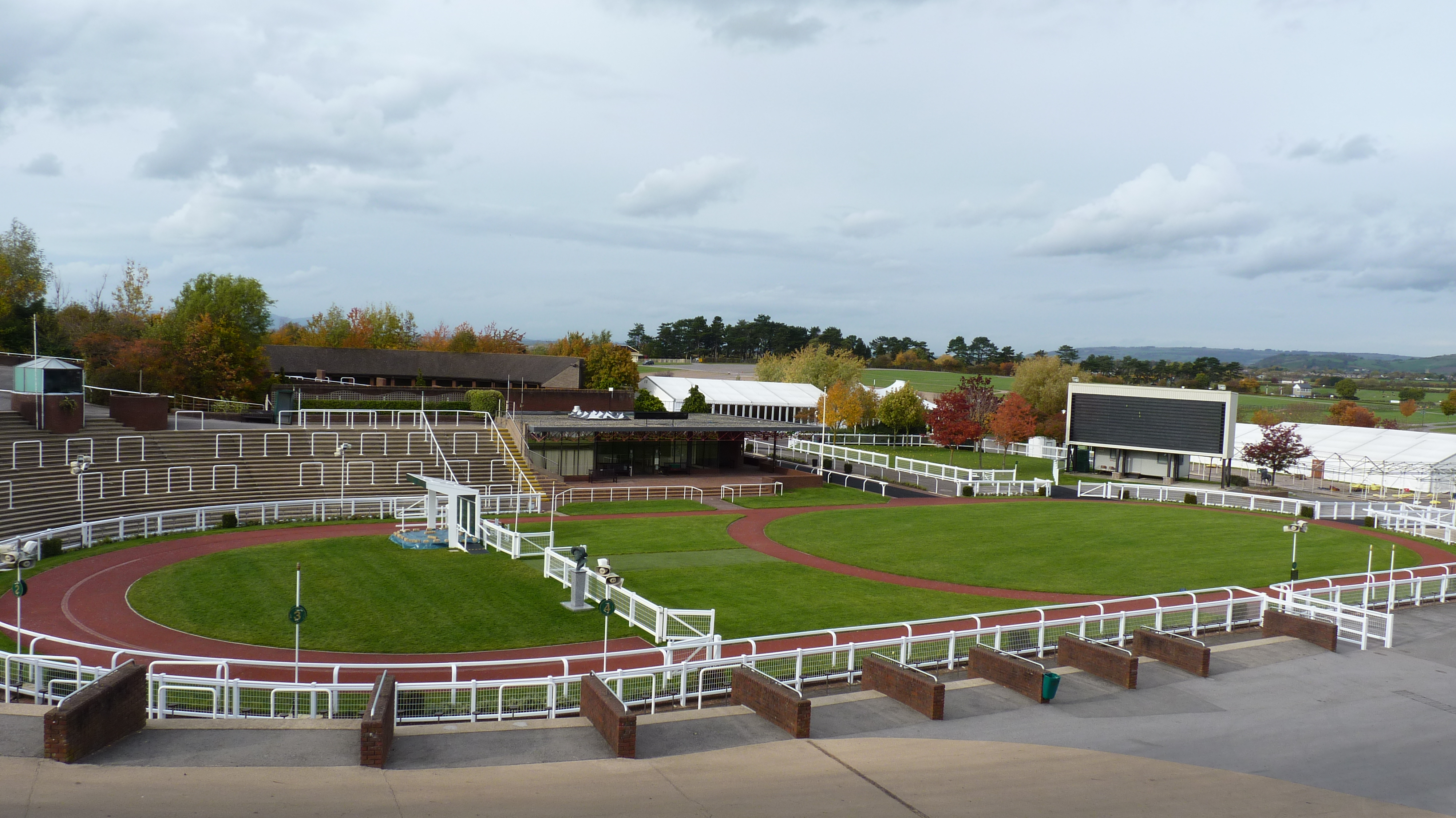 The winners' enclosure at Cheltenham racecourse